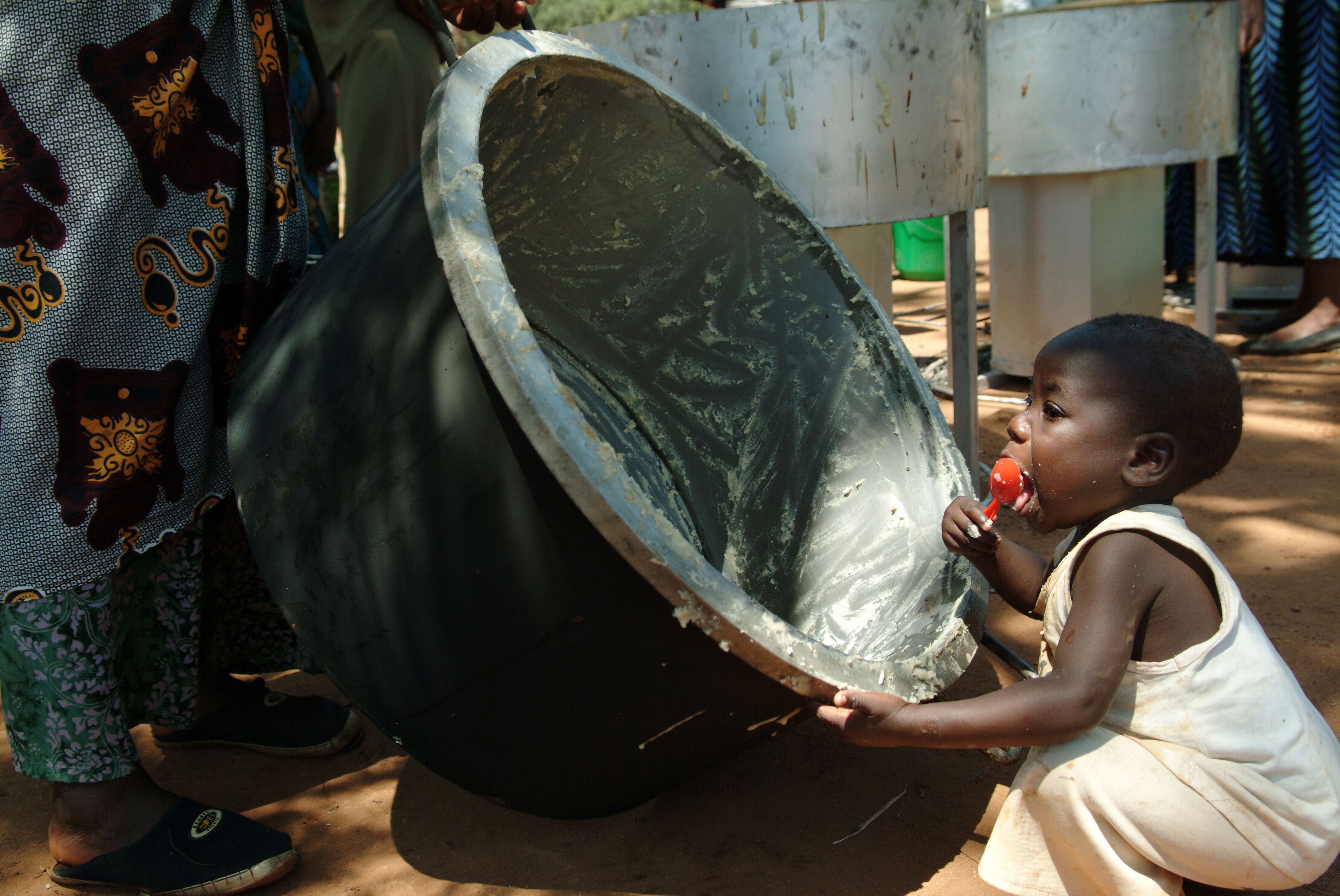 Child scraping bowl of Likuni Phala clean